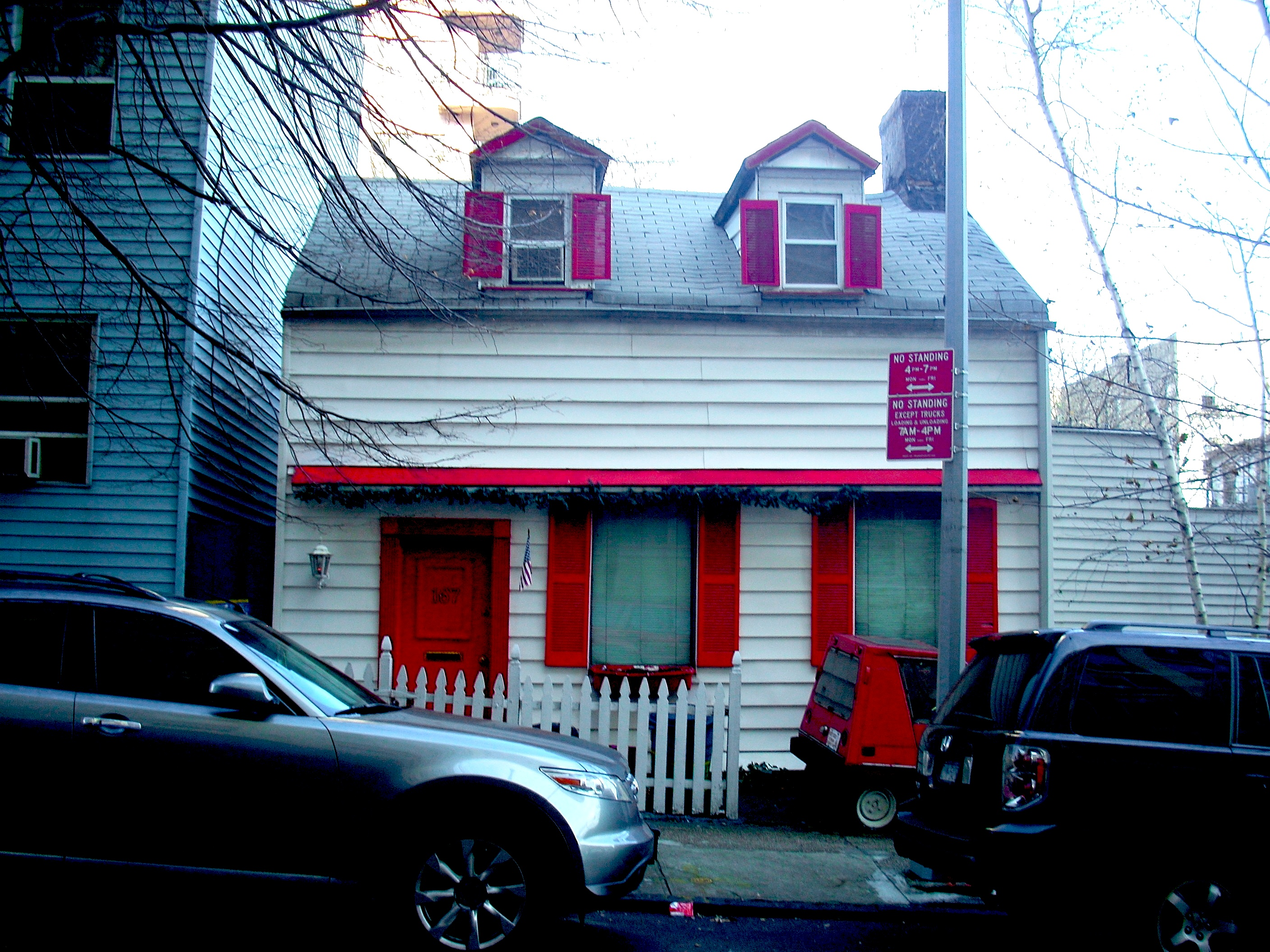 Late 18th century house on Concord Street, Brooklyn New York in the area formerly known as Vinegar Hill, now part of the Bridge Plaza area.